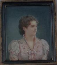 Mrs. William Waldorf Astor, (Mary Dahlgren Paul, 1853-1894) OBJECT NUMBER: 1905.11 ARTIST/MAKER:Fernand Paillet RELATED PERSON:Mary D. Astor DATE: 1890 MEDIUM: Watercolor on ivory DIMENSIONS: Overall: 2 x 1 5/8 in. ( 5.1 x 4.1 cm ) CREDIT LINE: Gift of the Estate of Peter Marié